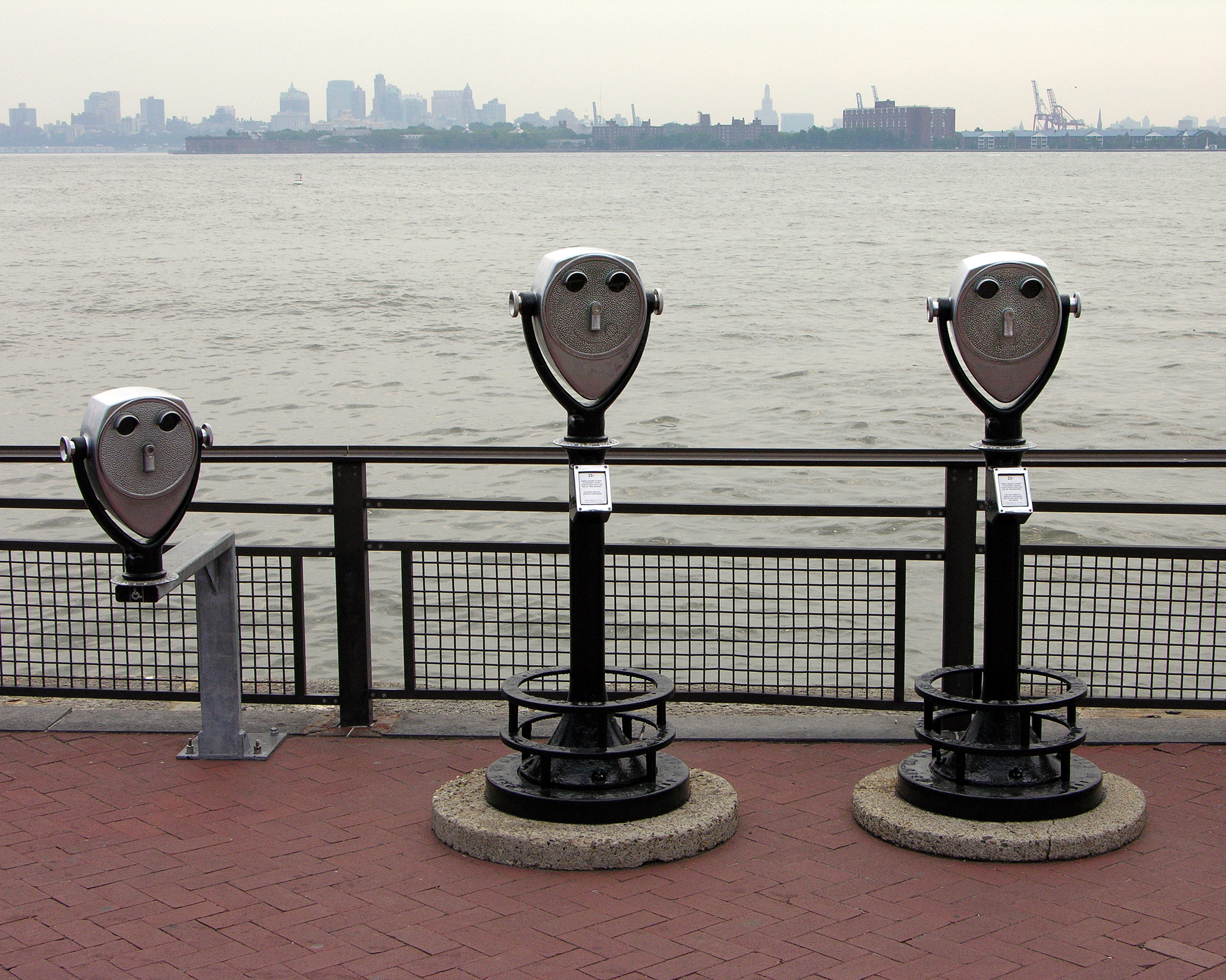 Liberty Island "Aliens". The island offers panoramic views of New York Harbor.